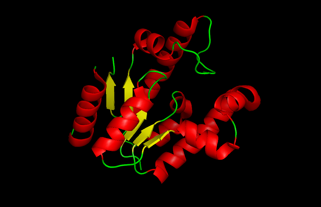 A cartoon representation of shikimate kinase from Mycobacterium tuberculosis (PDB code 2IYZ). Created by Nicholas Bonawitz, December 8, 2011 using Pymol v1.4.1.